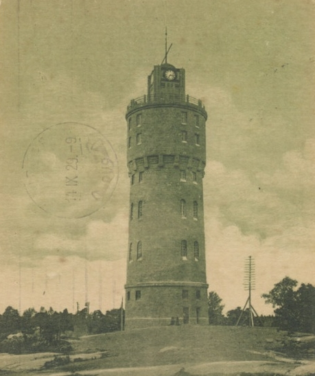 Hanko old water tower in Finland